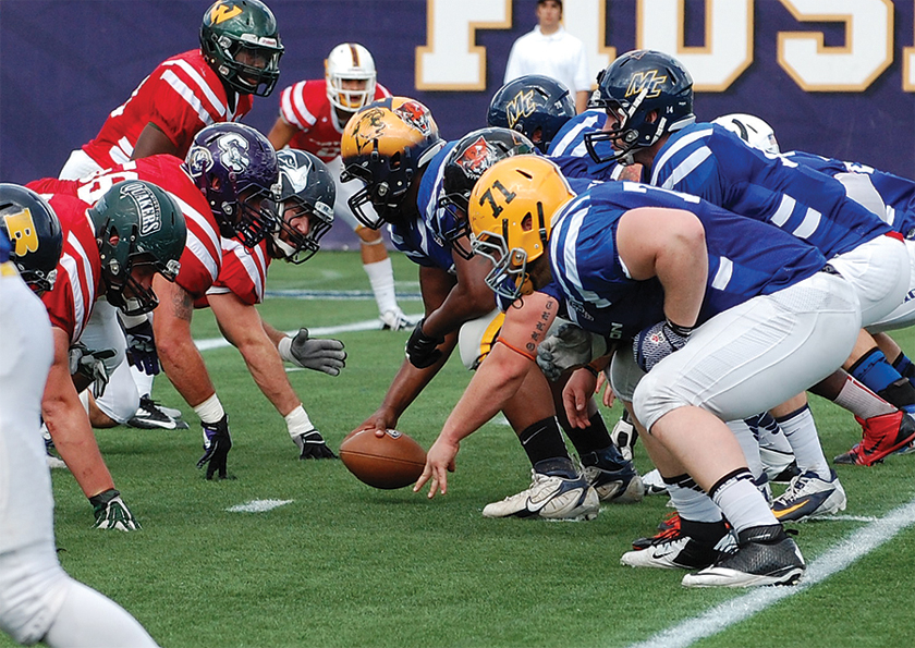 National Bowl football players taking a snap at FIU Stadium